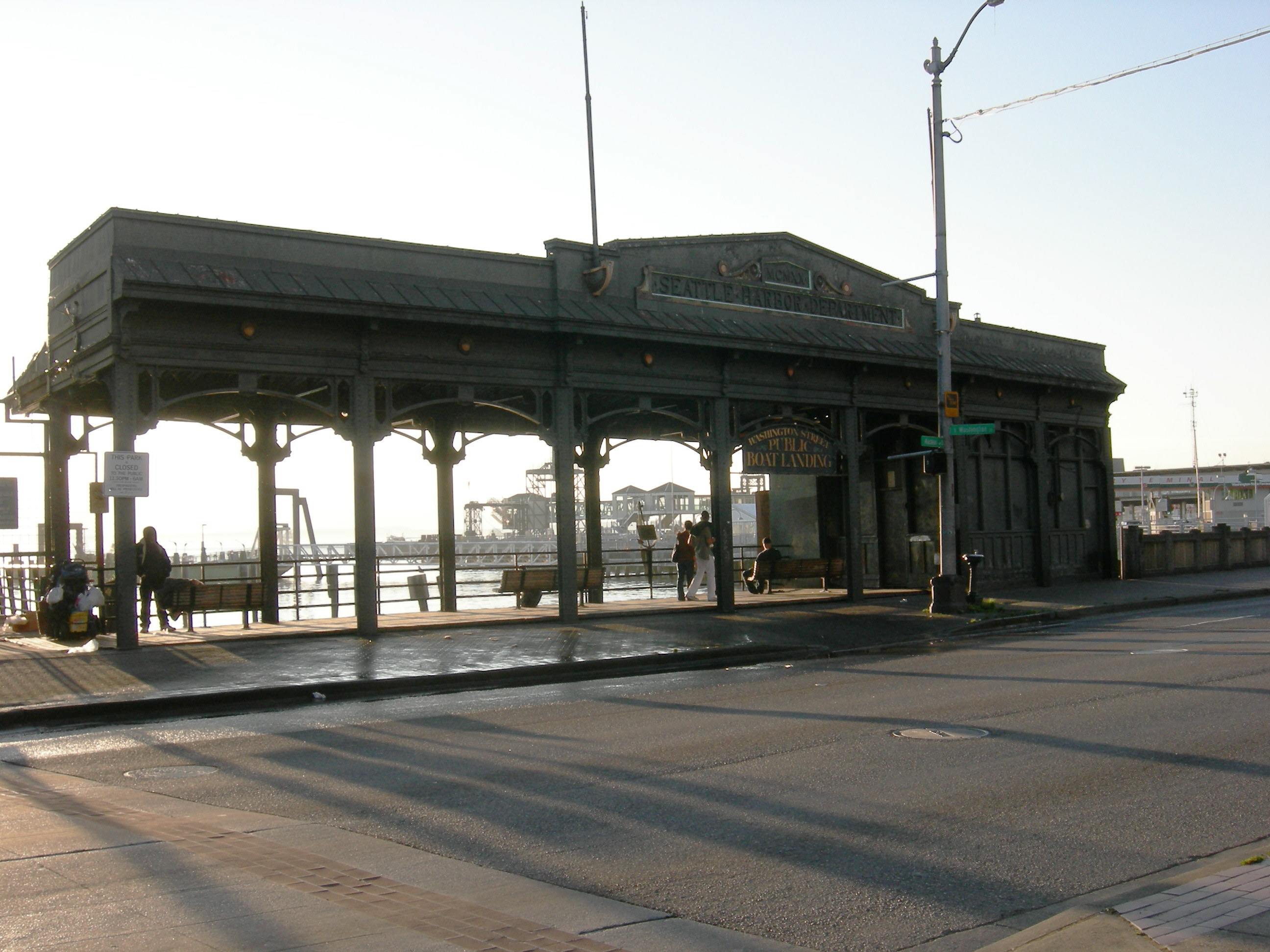 The Washington Street Boat Landing (originally Harbor Entrance Pergola, also known as Public Boat Landing) on the Elliott Bay waterfront in the Pioneer Square neighborhood of Seattle, Washington. The galvanized iron shelter is supported by 16 decorated steel columns. On the National Register of Historic Places, ID #74001961, under the name Washington Street Public Boat Landing Facility. Architect Daniel Riggs Huntington; built 1920, with some restoration work done in the 1970s. This is the district's only important landmark on the western side of Alaskan Way. Shown here just before sunset.